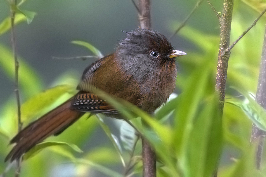 The species Rusty-fronted Barwing had been photographed during the birding tour of GoingWild in Pangolakha Wildlidfe Sanctuary at East Sikkim, Sikkim in India on 14.12.2015.